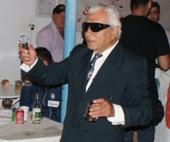 Greek singer Tasos Bougas